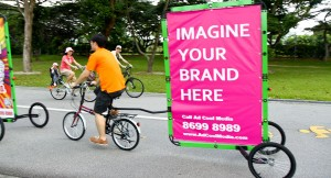 A mobile bicycle billboard being cycled in East Coast Park, Singapore.